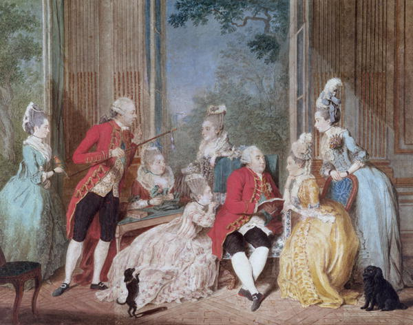 The salon of the Duke of Orléans (sitting); he is with his son (standing)